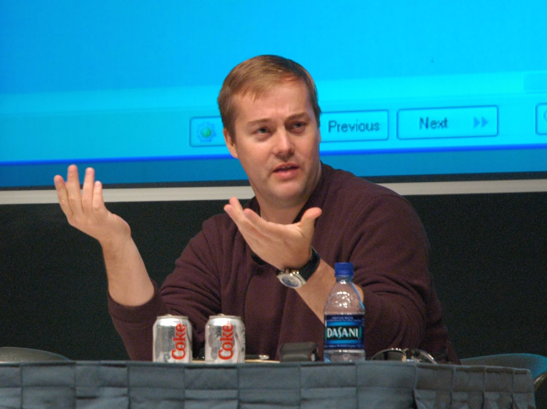 Jason Calacanis at Gnomedex. Jason: "Don't worry about getting letters from attorneys..."